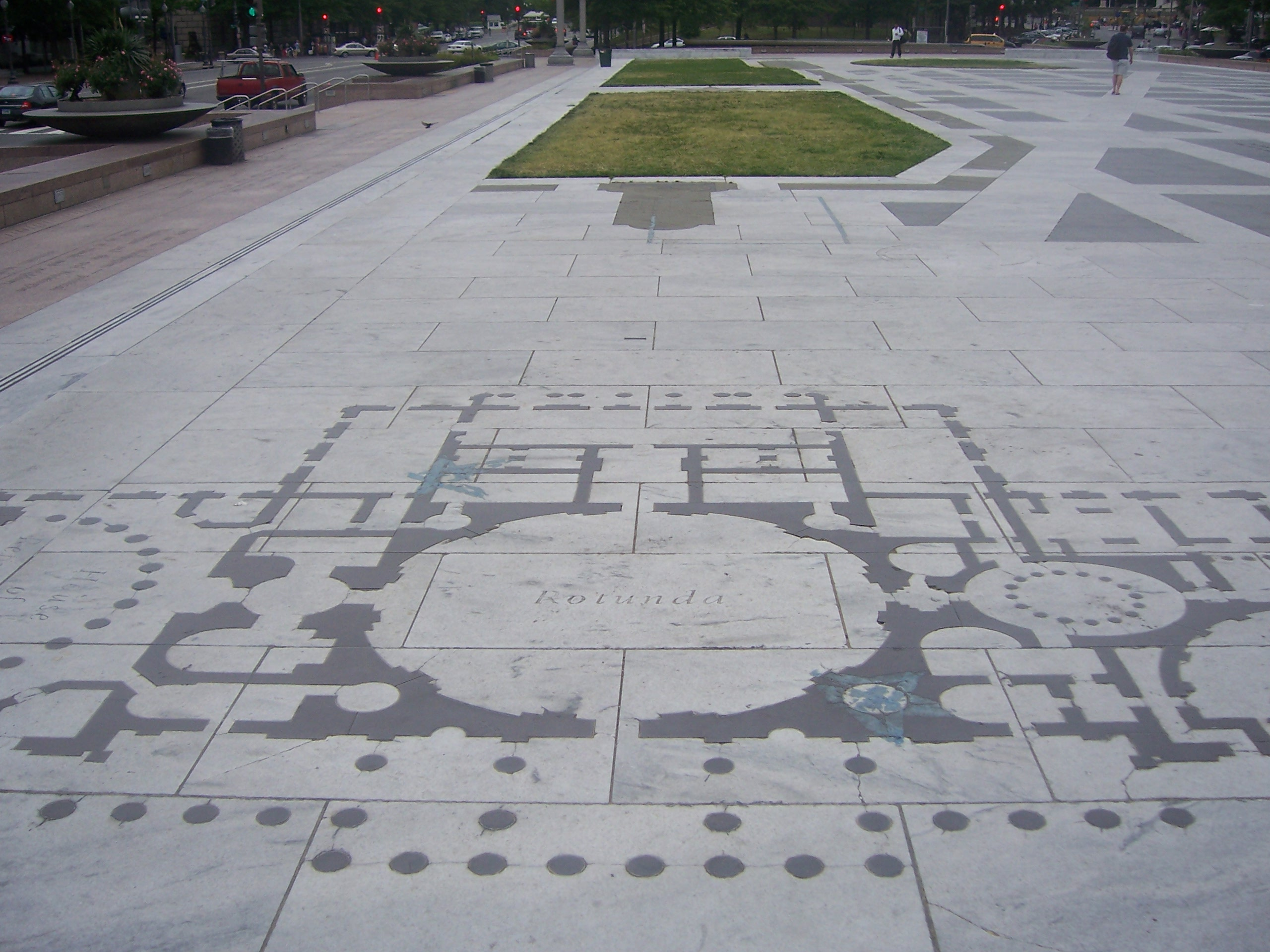 Floor plan of The Capitol building as inscribed in Freedom Plaza